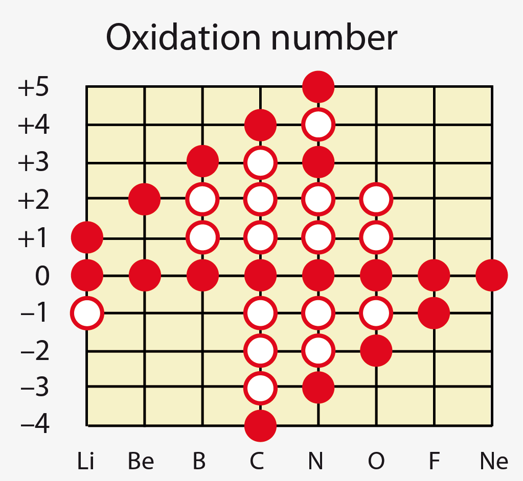 Oxidation number of period 2 elements. Most common oxidation numbers are indicated by full dots. Source: Greenwood and Earnshaw, Chemistry of the elements, Second edition, Elsevier, 1997.